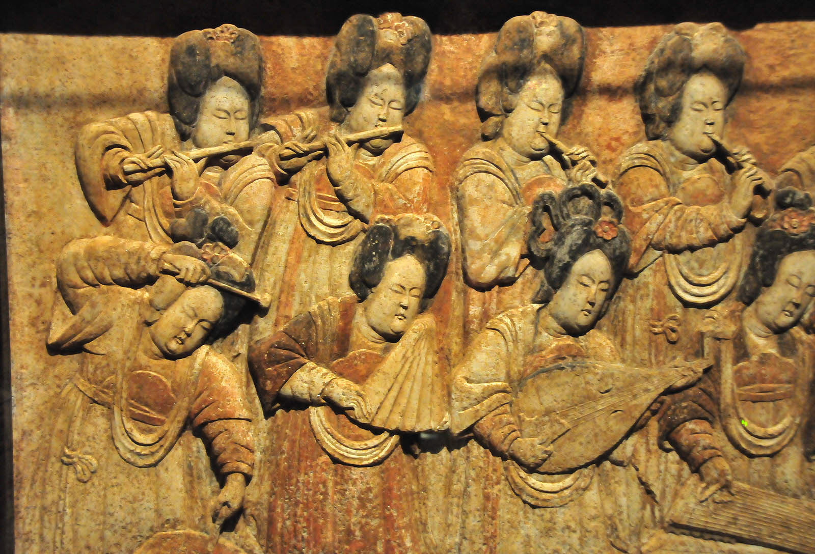 Chinese artwork of lady musicians in a raised-relief, from the Capital Museum in Beijing, dated to the Five Dynasties and the Ten Kingdoms Period (907-960 AD)